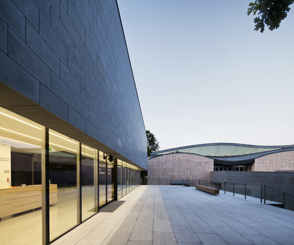 Europe - Far East Gallery, annex to The Manggha Museum in Krakow, Poland, construction 2015, designed by Ingarden & Ewy architects